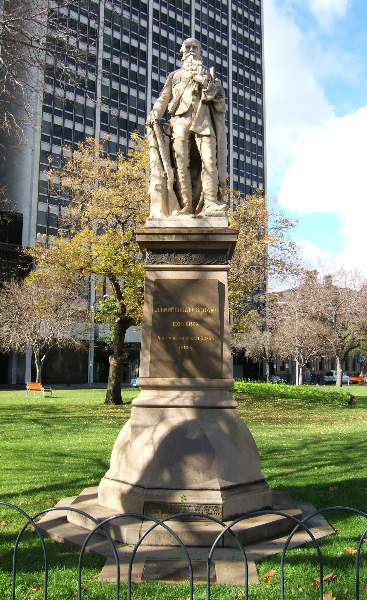 John McDougall Stuart statue, Adelaide